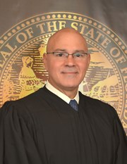 Alberto Milian: 11th Circuit Court Judge